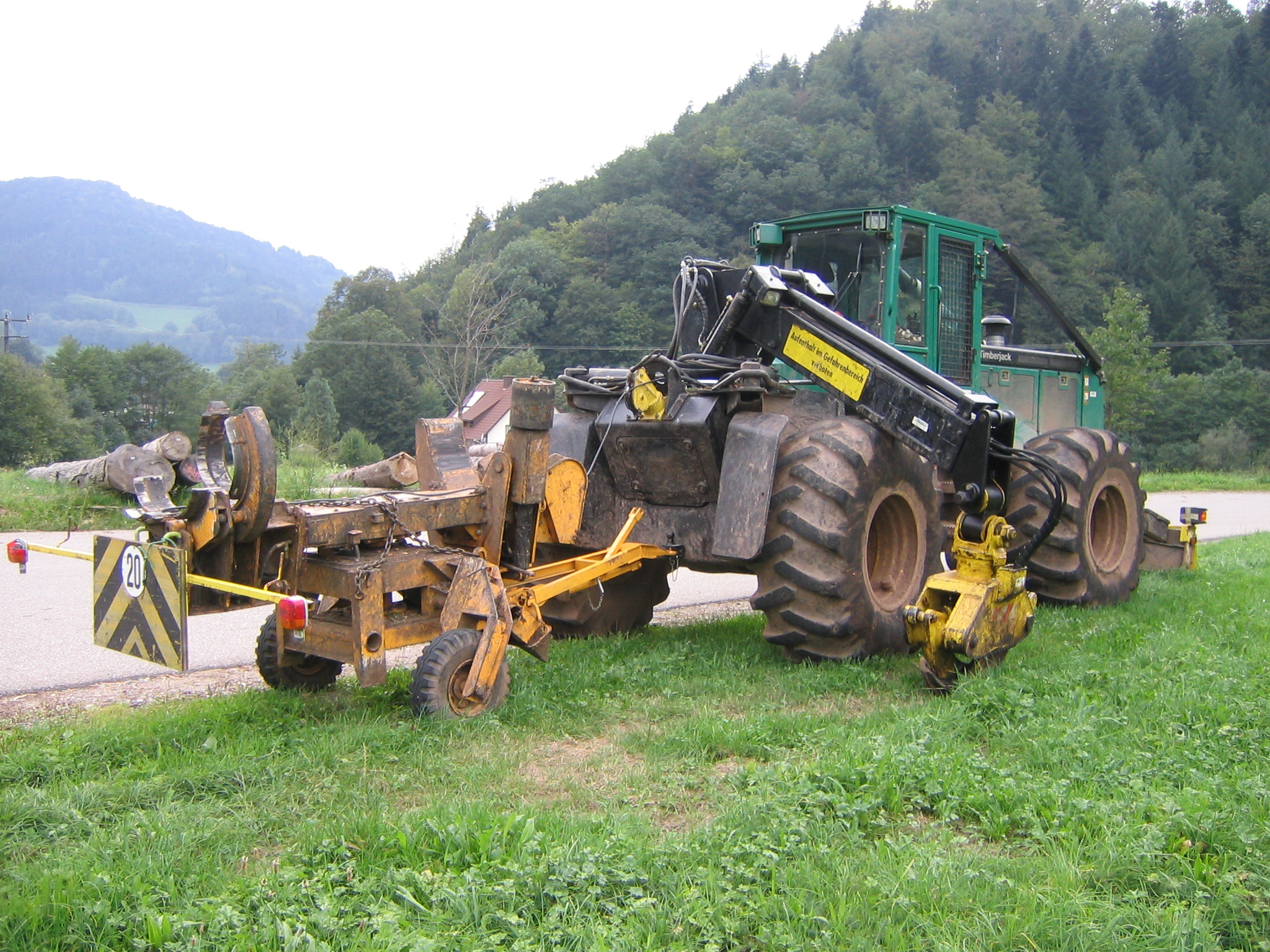 Timberjack 460DTC skidder